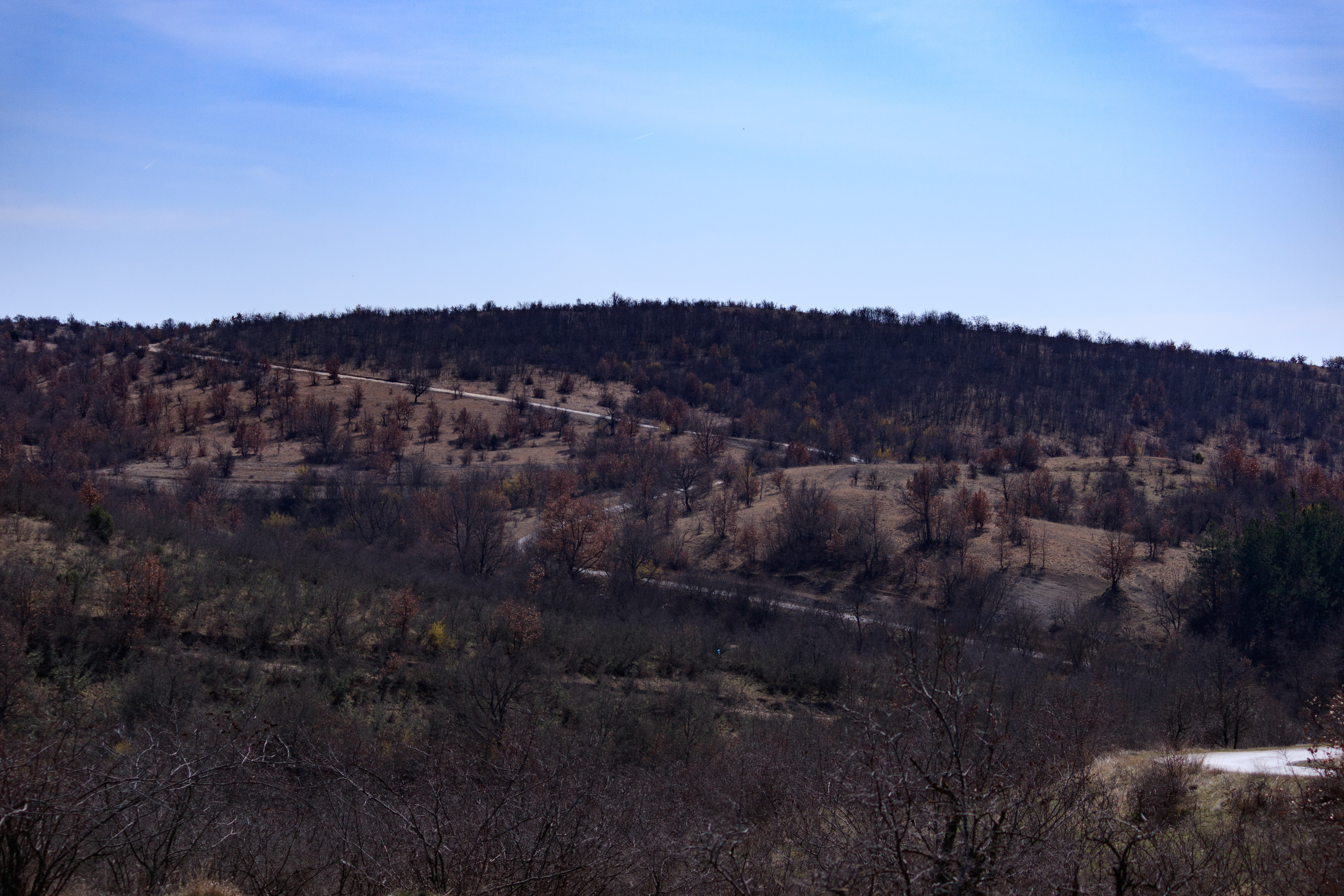 Landscape in the Kozjačija